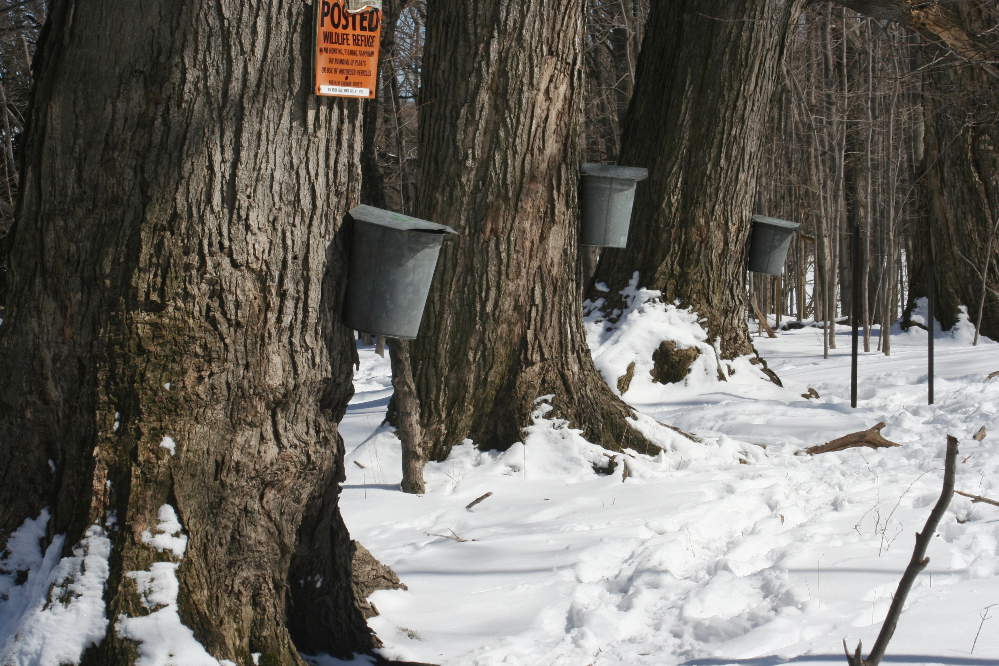 Maple trees with taps and buckets for collecting sap, to be made into maple syrup, at Beaver Meadow Audubon Center, North Java, NY.